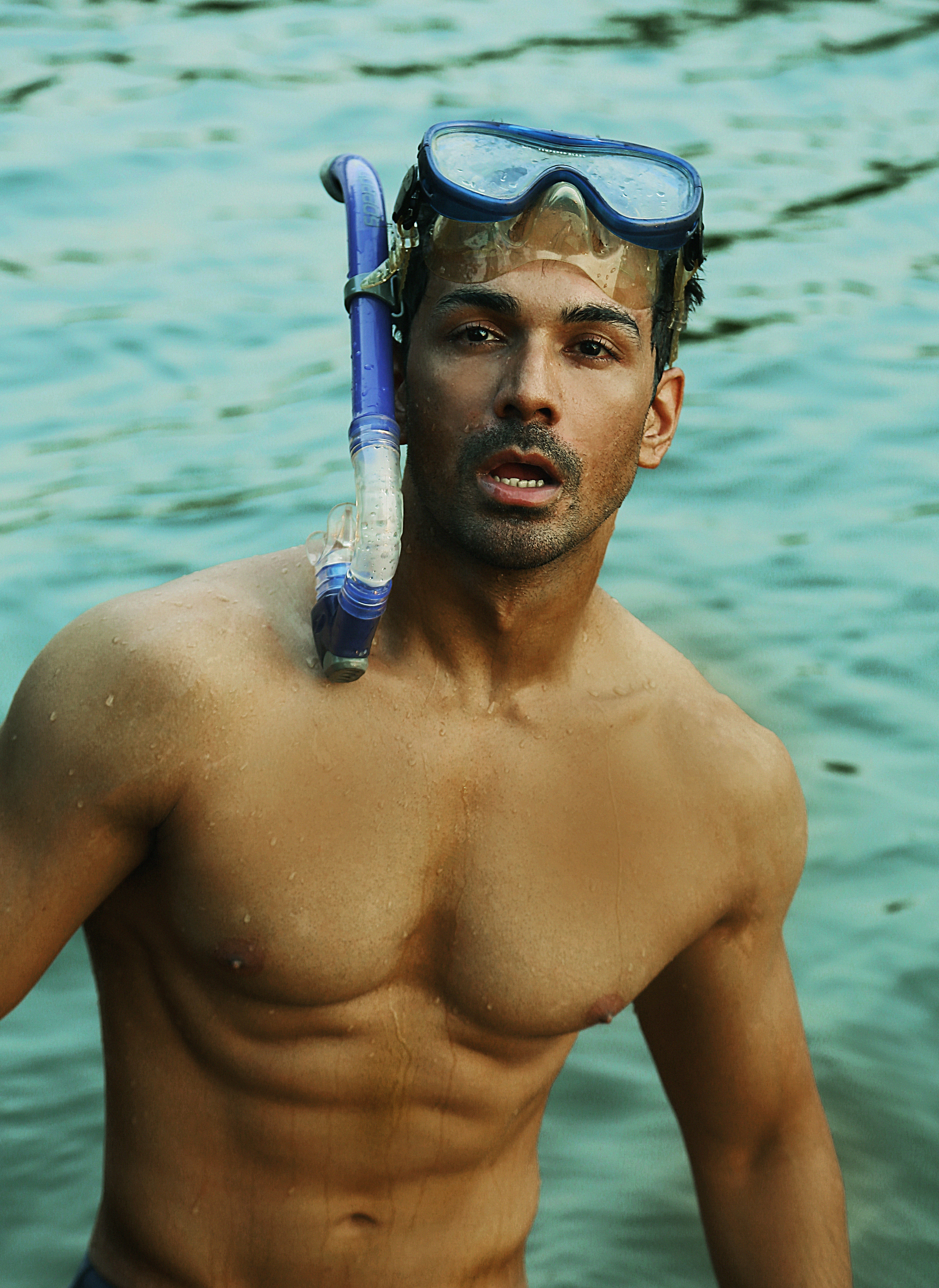 A pic from the collection of outdoor pics taken in Kundalika river Kolad.